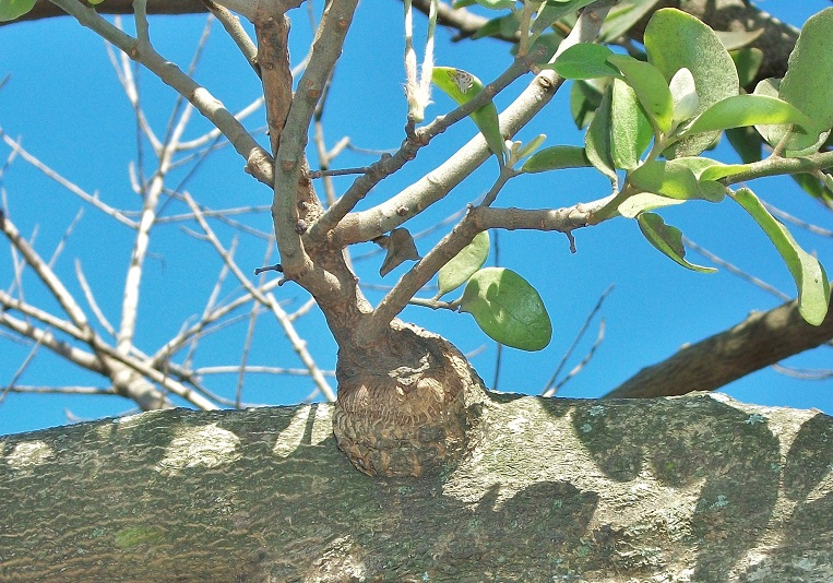 Stem of Erianthemum dregei growing from branch of a Croton sylvaticus from Amanzimtoti, KwaZulu-Natal, South Africa.